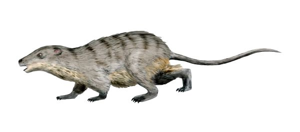 Eomaia